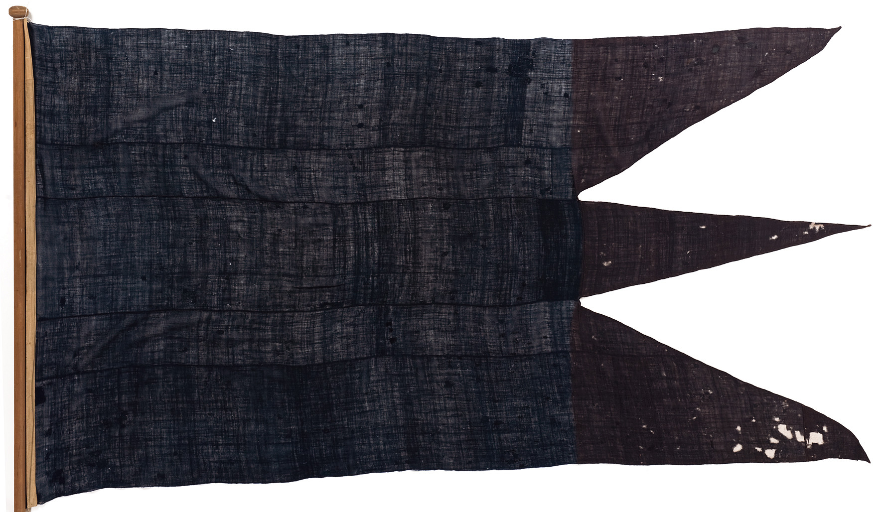 An original flag of the Swedish archipelago fleet. This design was used 1761-1813